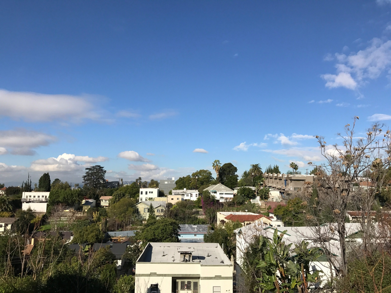 Angelino Heights, Aerial View of Neighborhood